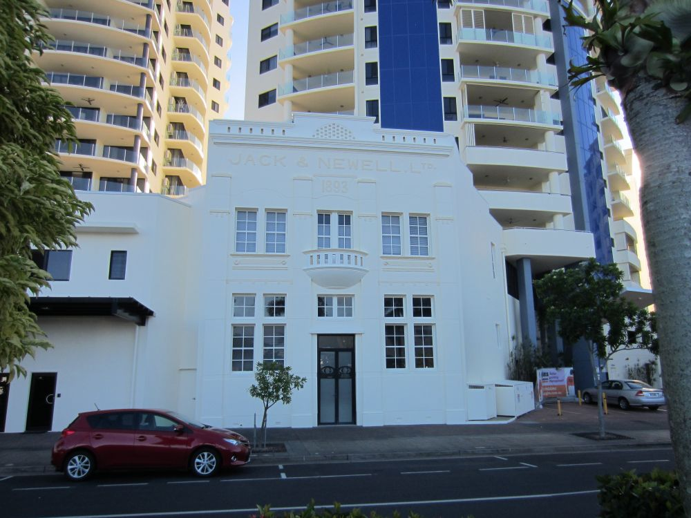 Jack and Newell Building, 2015, now part of a 14-storey holiday apartment complex